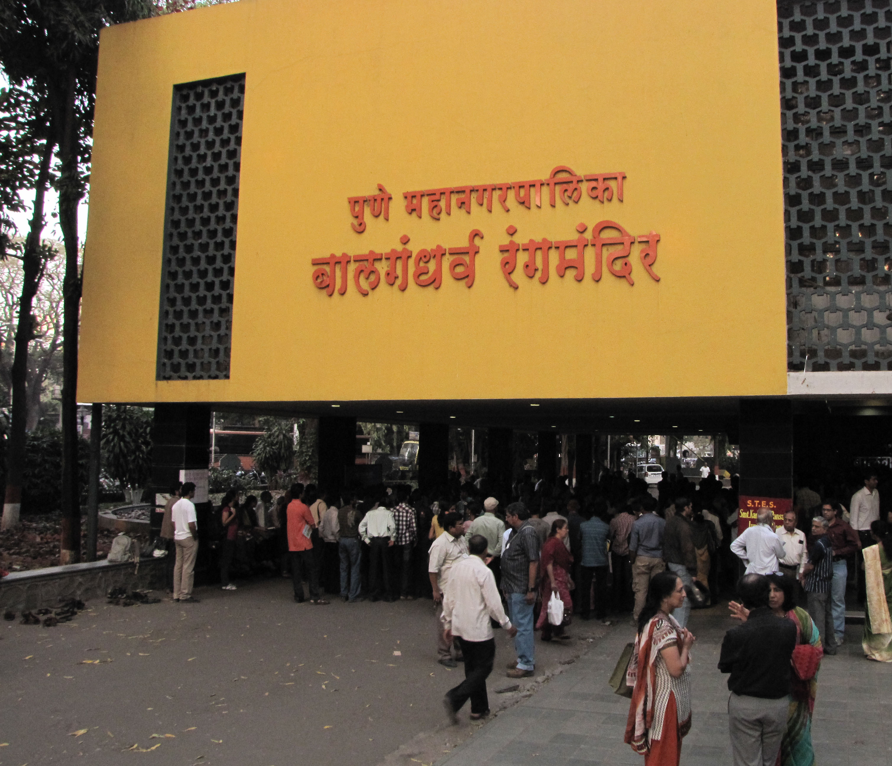 balgandharva rangmandir, pune